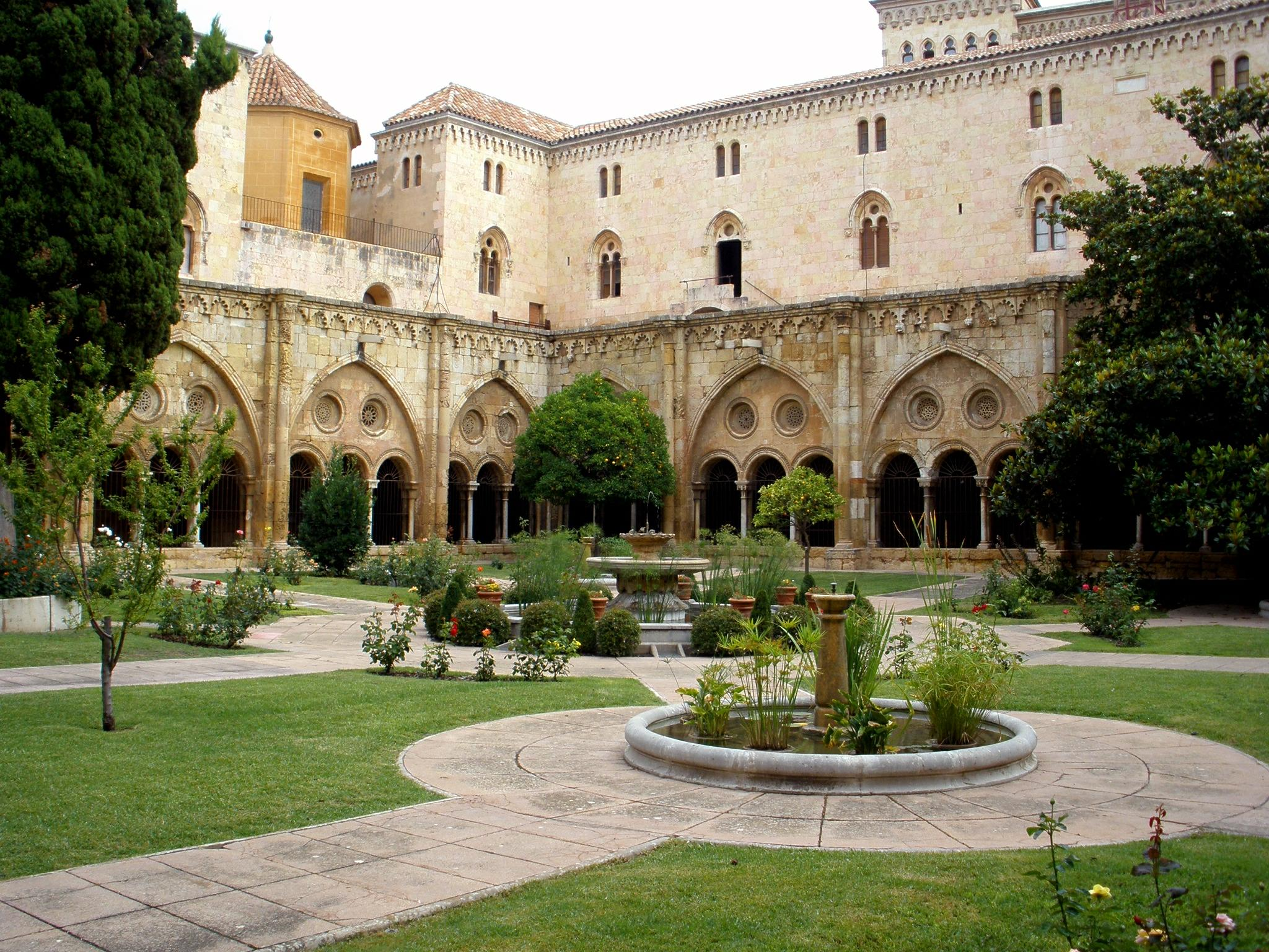 Claustro de la Catedral de Tarragona (Cataluña, España)